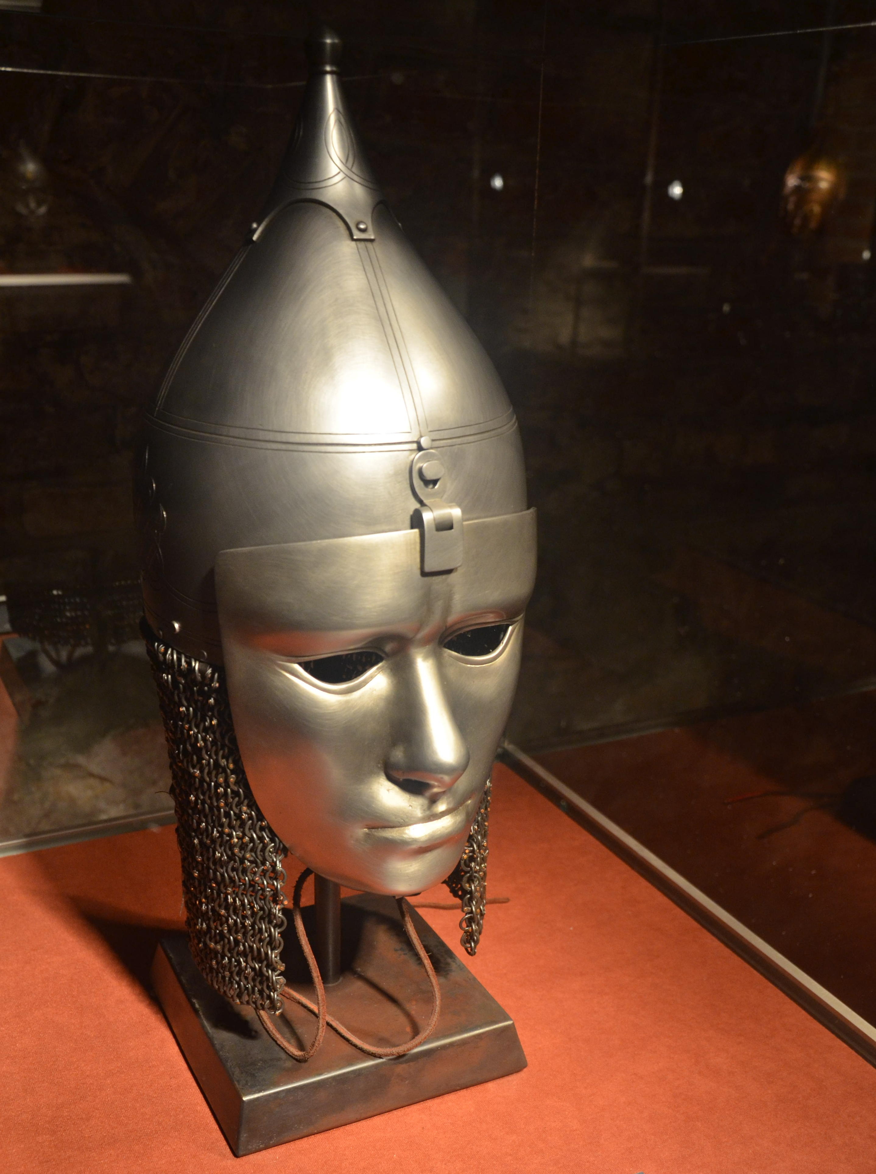 Russian-byzantine style helmet 13th c